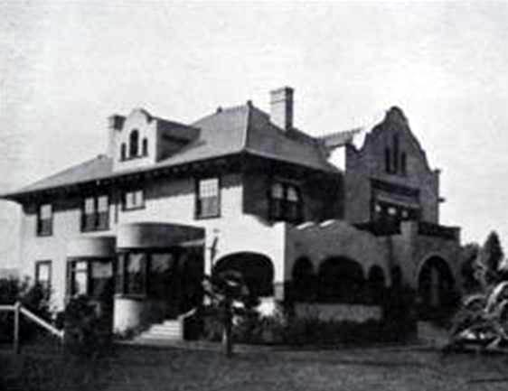 HB Sherman Residence, built by Joseph Blick, Pasadena, California.